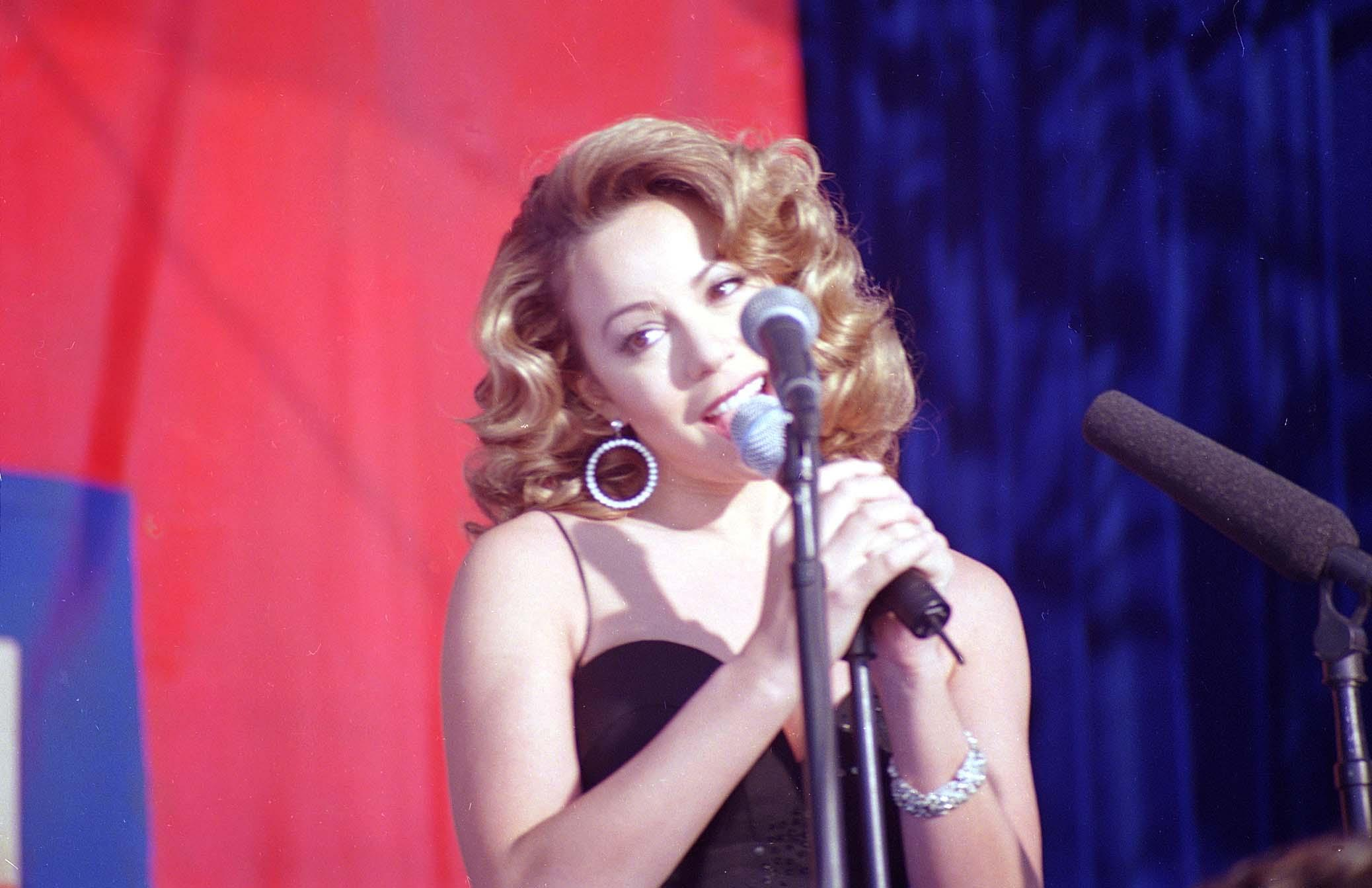 Mariah Carey at Edwards Air Force Base in Dec. 1998. Carey takes time out of her video shoot to sing for the crowd. Her video "I Still Believe" was taped on Dec. 11 and 12, 1998, at Edwards Air Force Base.